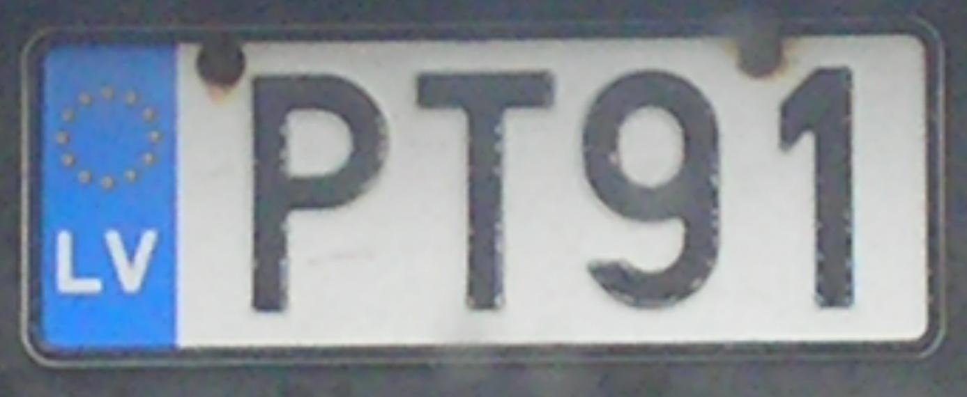 License plate from Latvia